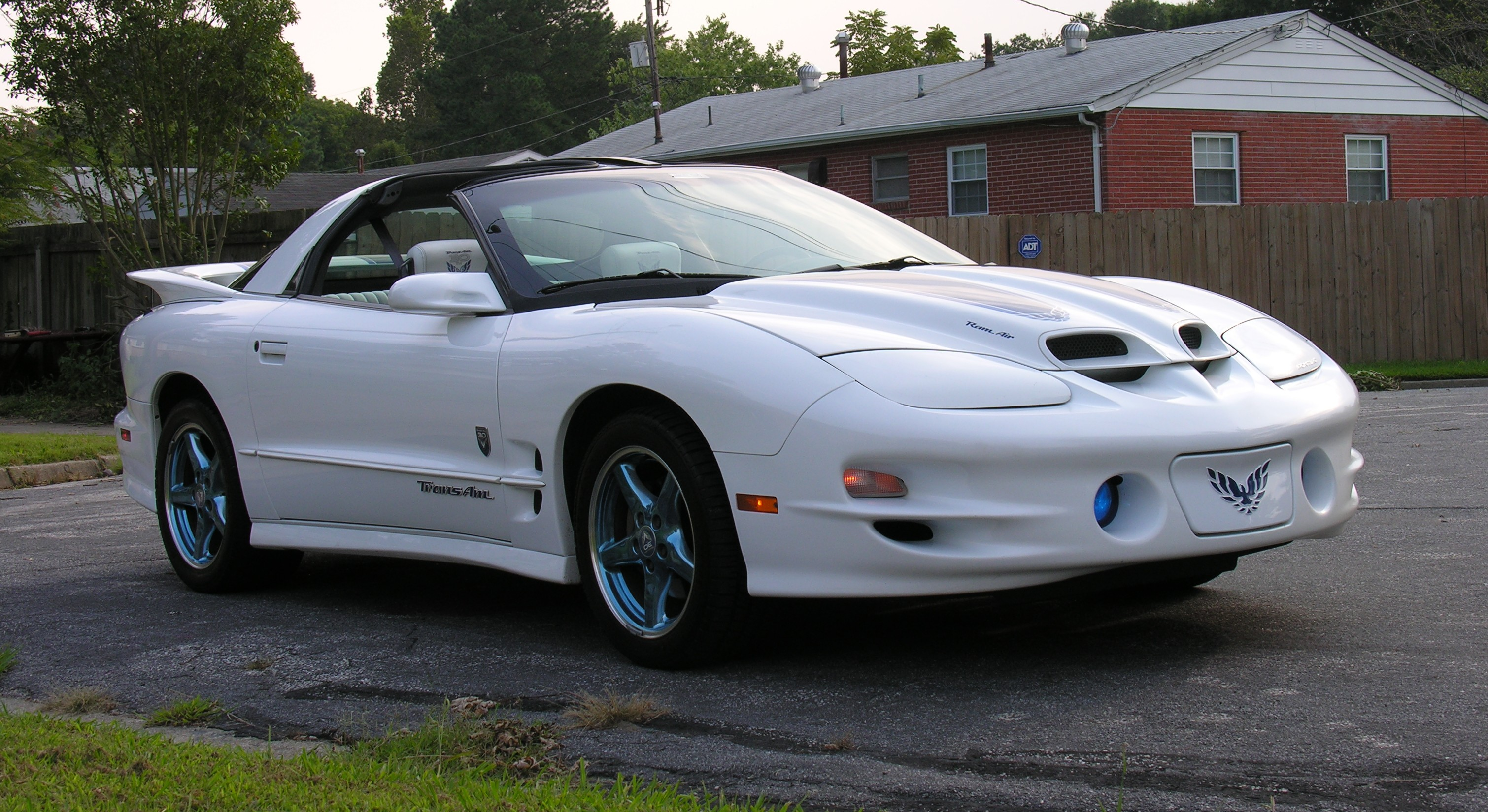 30th Anniversary Trans Am, Photo by Jessica Lynn